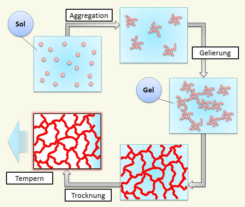 Sol-gel-processes describe the procedure for the production of non-metallic, inorganic or hybrid polymer materials from so-called soles. Sol is a liquid of dispersed colloidal particles or droplets (d=1nm to 100nm). Based on the size of the sol particles created, it often is spoken of chemical nanotechnology.